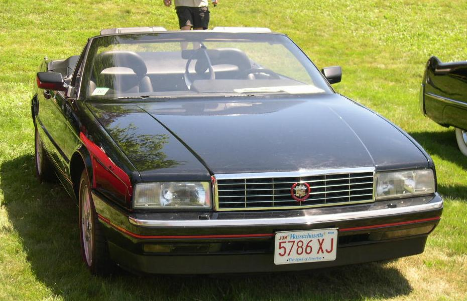 Cadillac Allante Source: Photographed at the Bay State Antique Automobile Club's July 10, 2005 show at the Endicott Estate in Dedham, MA by User:Sfoskett This is a pre-1993 Allante - note the two-piece windows.